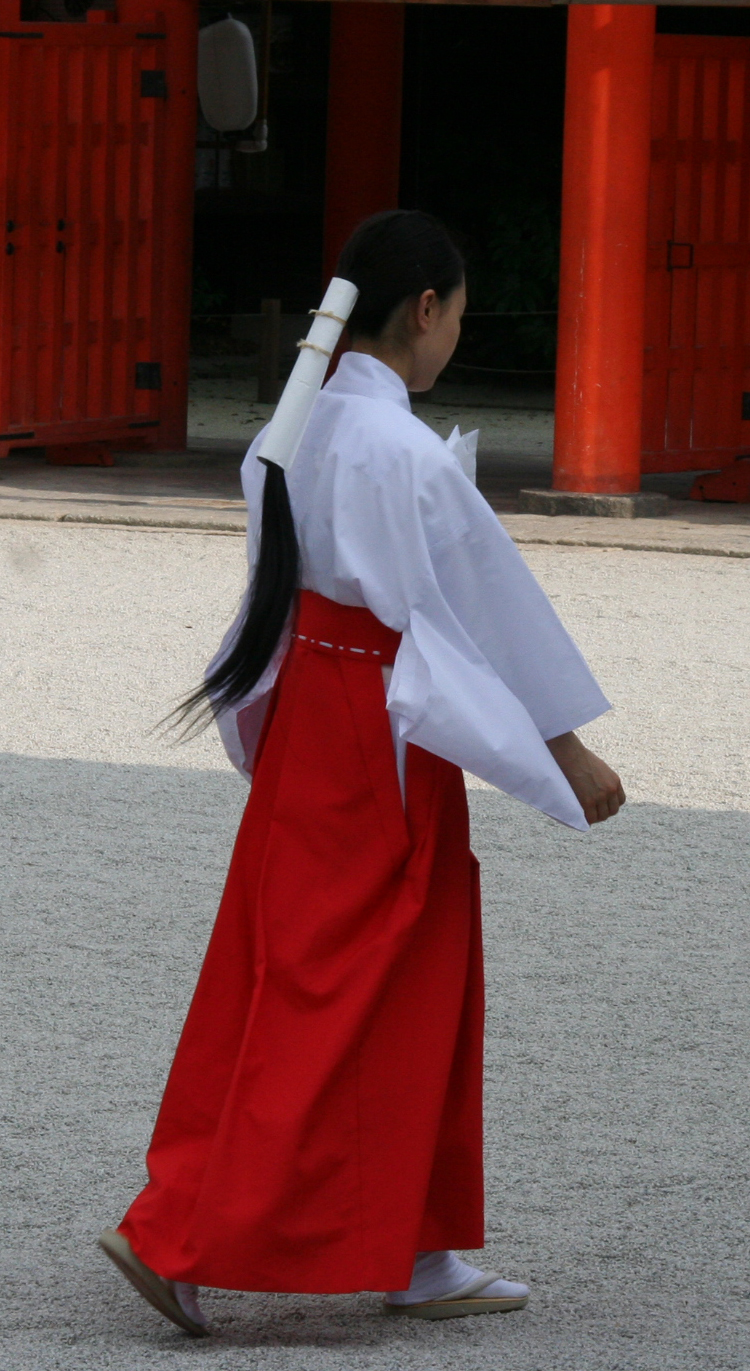 A Miko at Shimogamo Shrine, Kyoto.